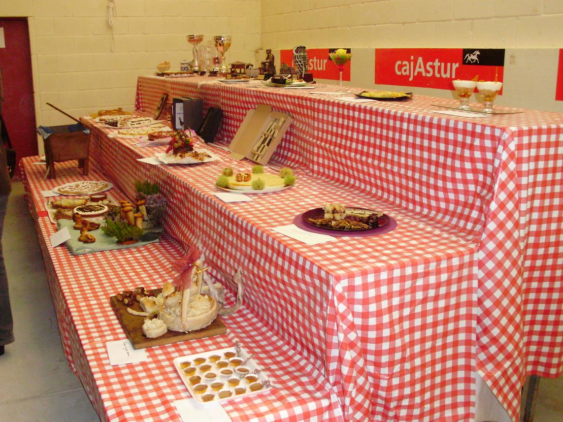 This picture shows the variety of dihes with honey as one of their ingredients presented in the contest organized during the XXII Feria de la Miel (Honey Show), hosted in Boal (Asturias, Spain) during the last weekend in October 2008.